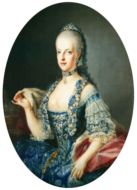 Portrait of Maria Carolina of Austria (1752-1814)